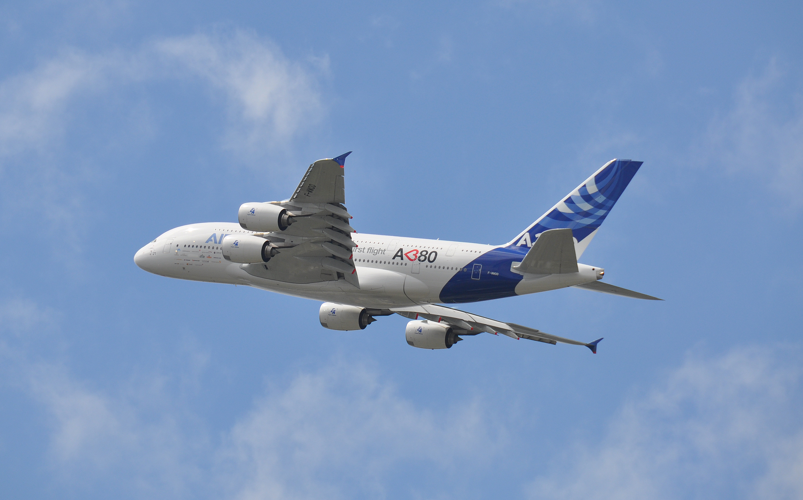 Airbus A380 at the Paris Air Show